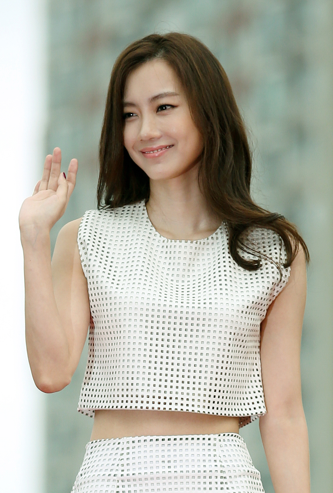 Actress Shin Hyun-bin arrives at the red carpet event of the Pifan in Bucheon on July 17, 2014